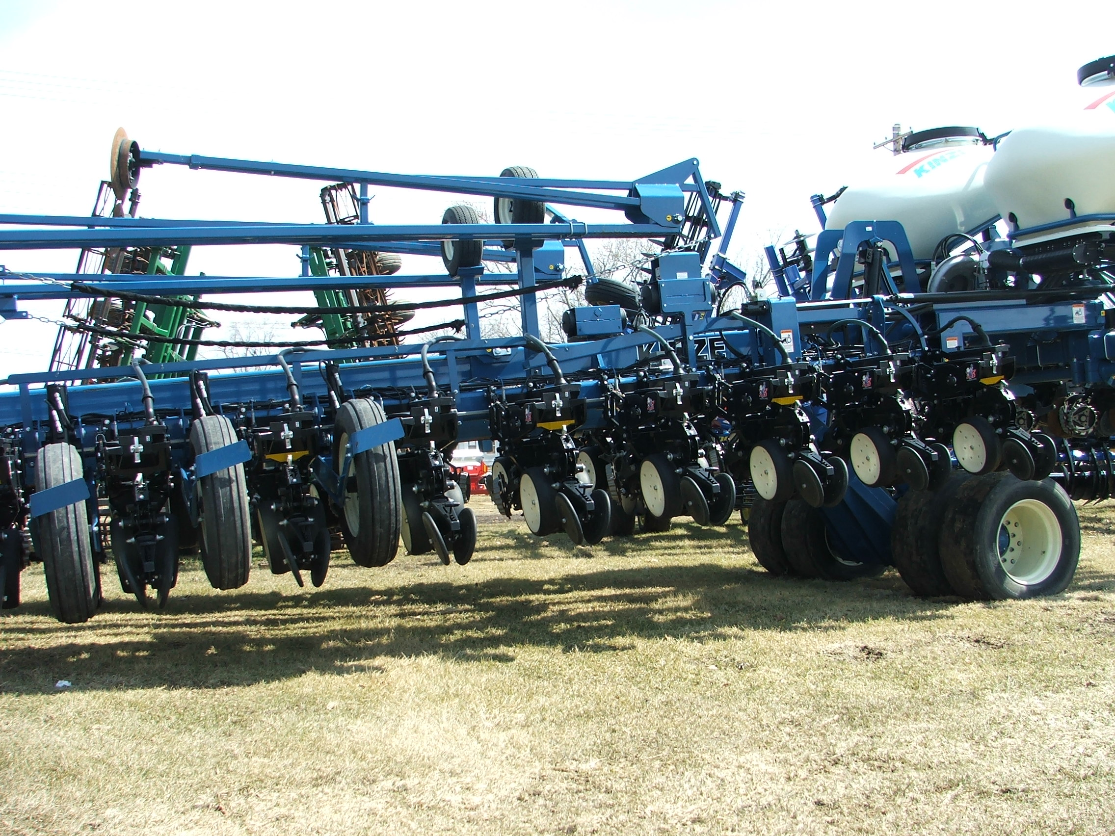 Kinze model 3700 planter from the side.